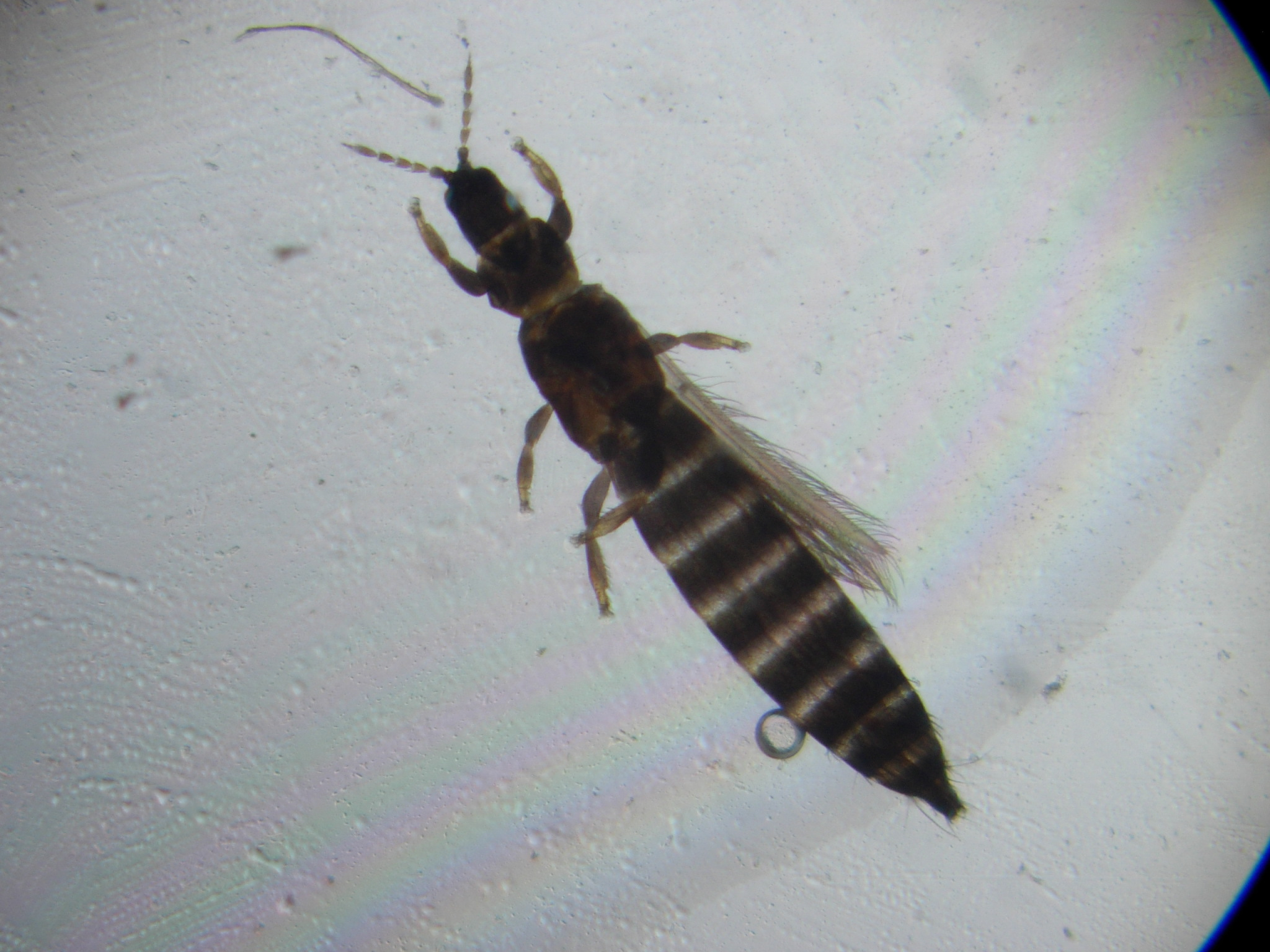 thrips